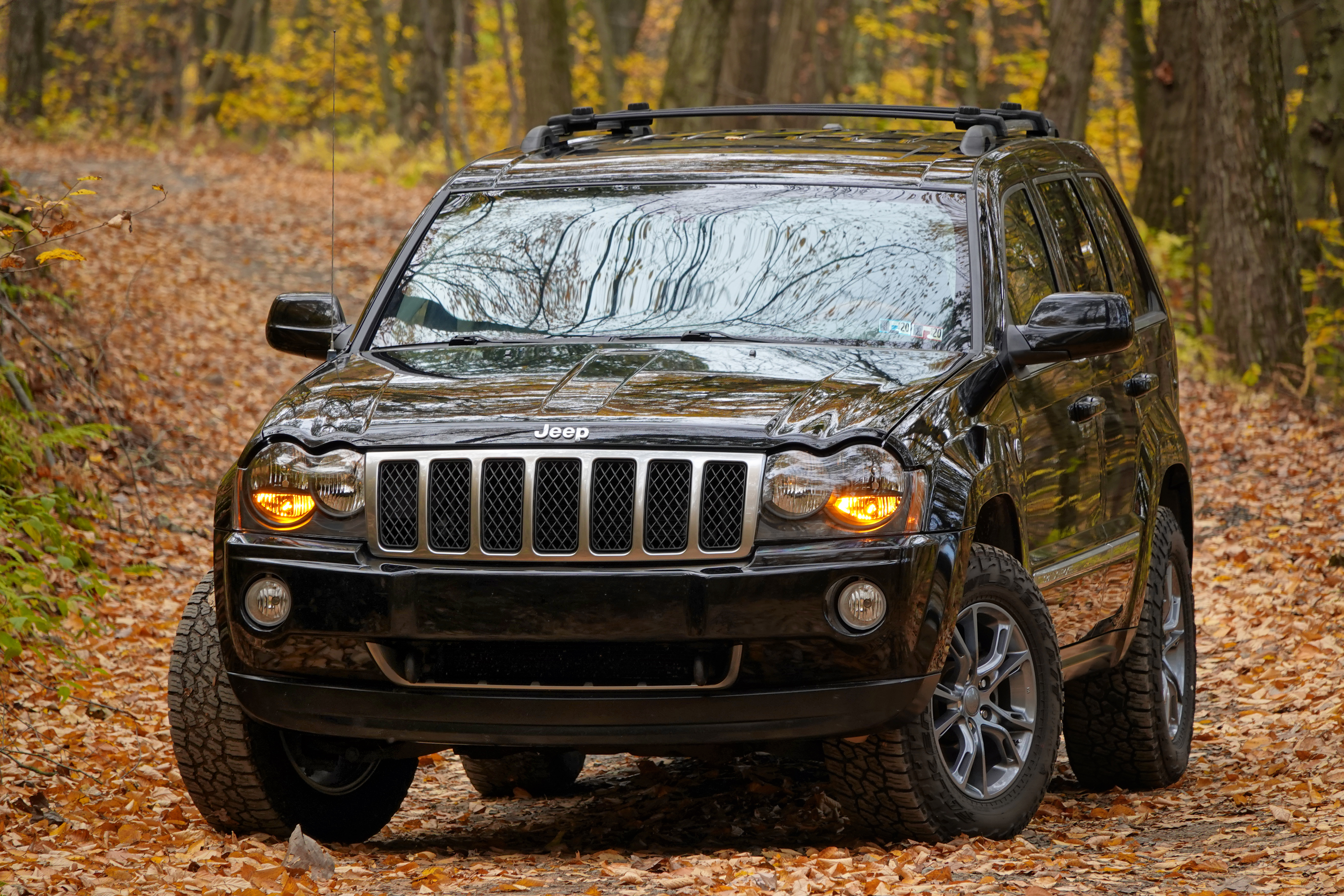 2007 Grand Cherokee Overland, equipped with the 5.7 Hemi and light cosmetic modifications.